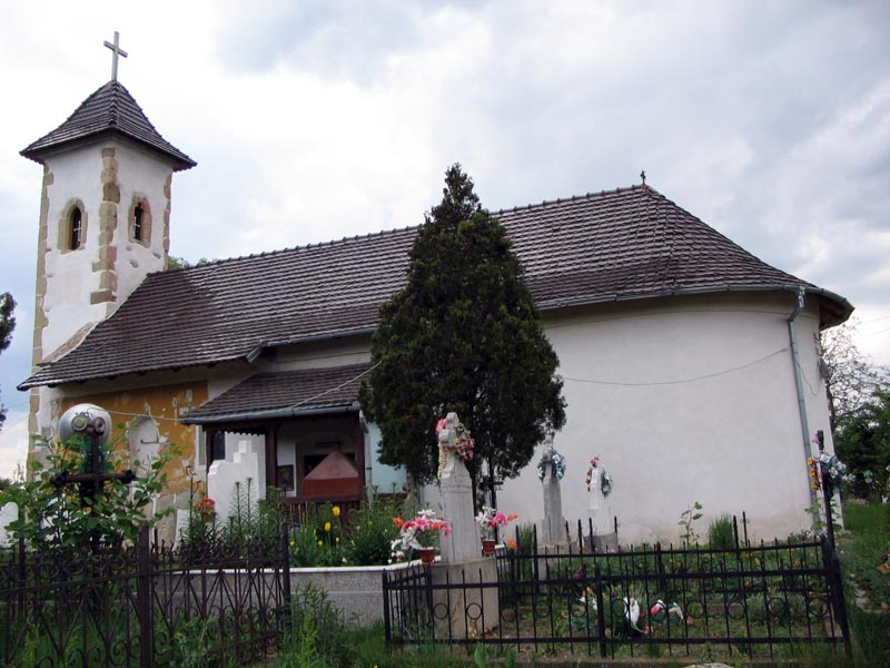 Orthodox Church in Ostrov village, Hunedoara County, Romania